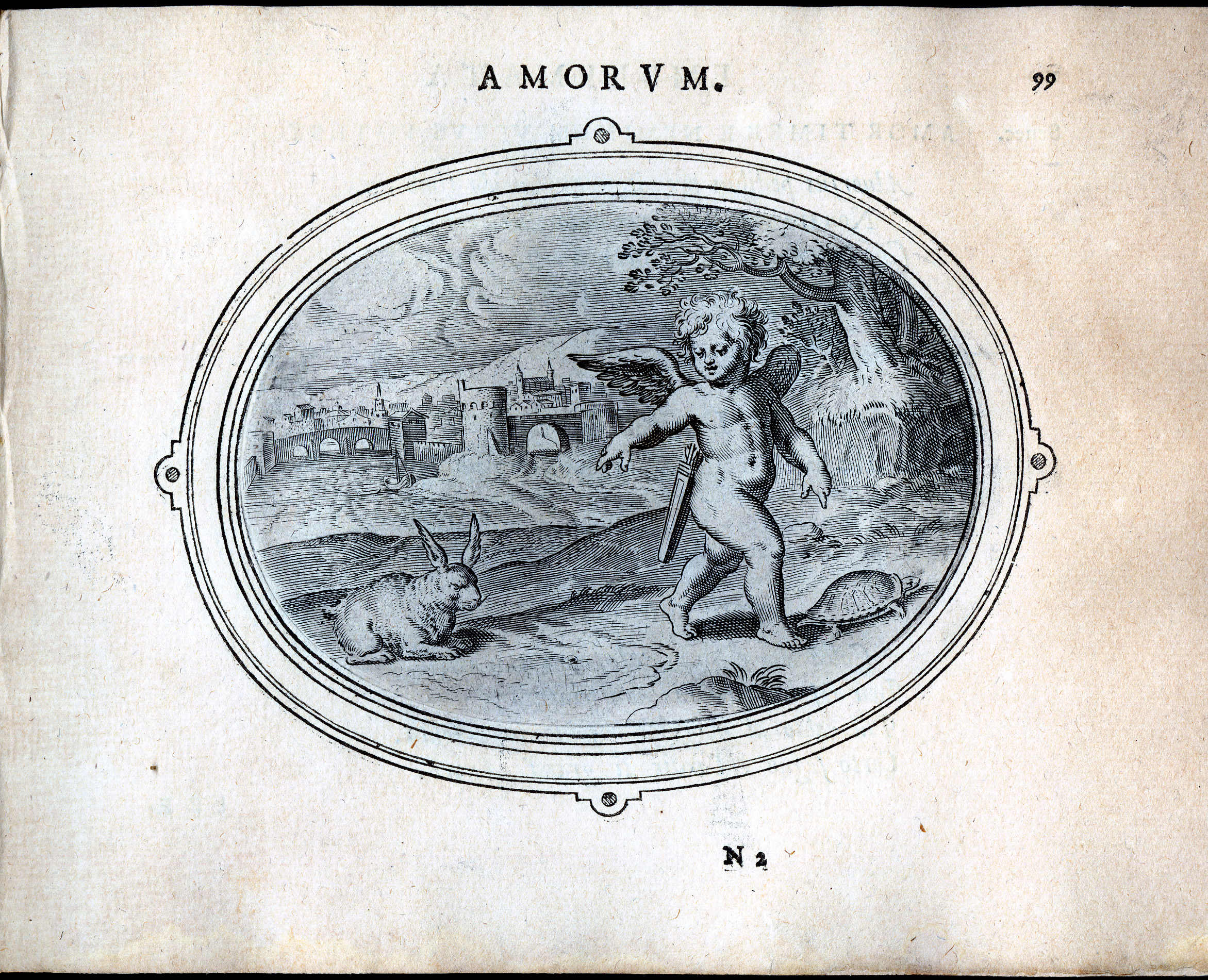 Veen, Otto van. Amorum Emblemata... Emblems of Love, with verses in Latin, English, and Italian. Antwerp: [Typis Henrici Swingenii] Venalia apud Auctorem, 1608.